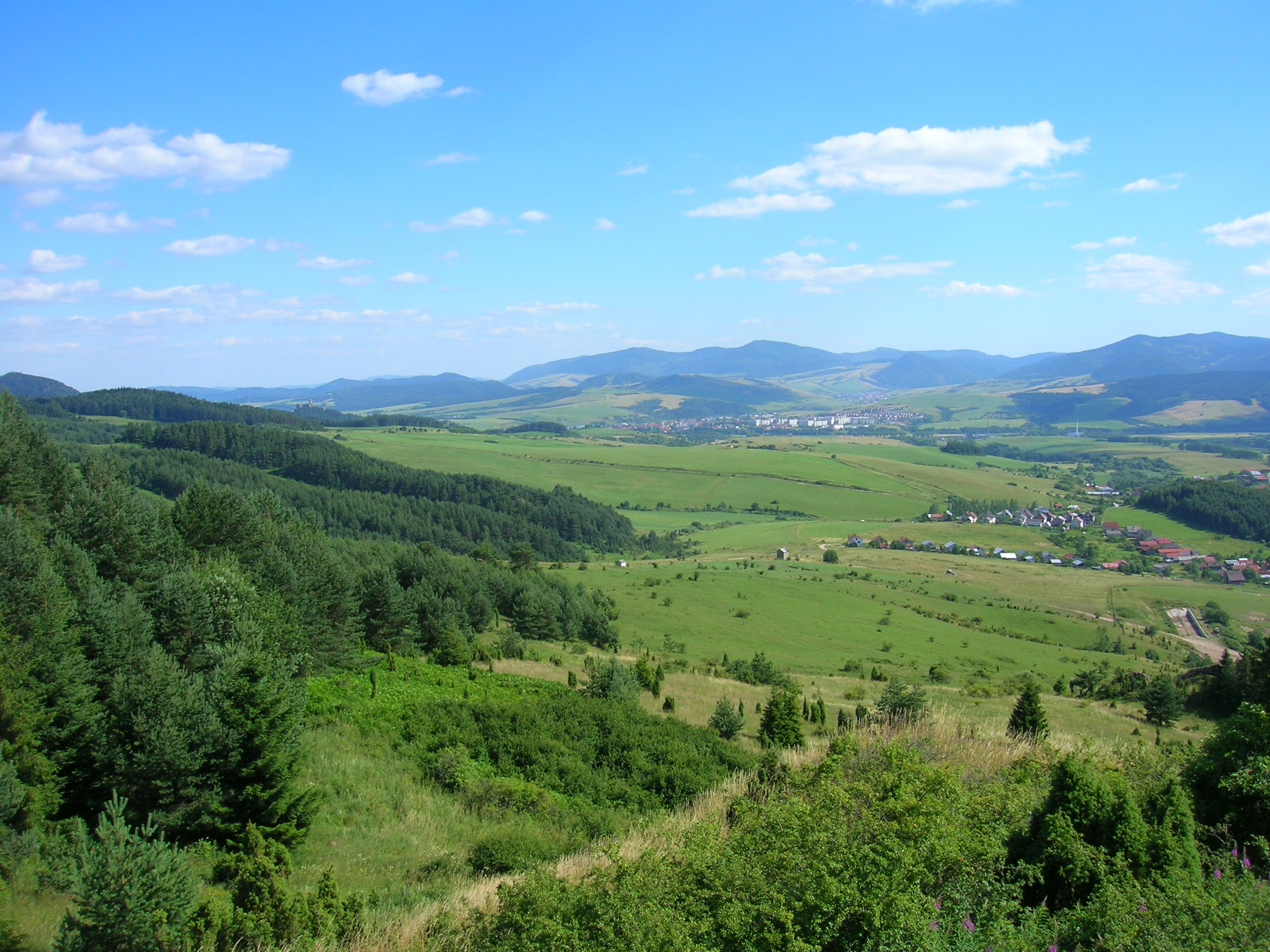 view of Stará Ľubovňa and surroundings from North-West